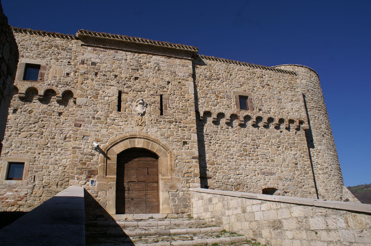 Civitacampomarano castle - MIBACT This is a photo of a monument which is part of cultural heritage of Italy.